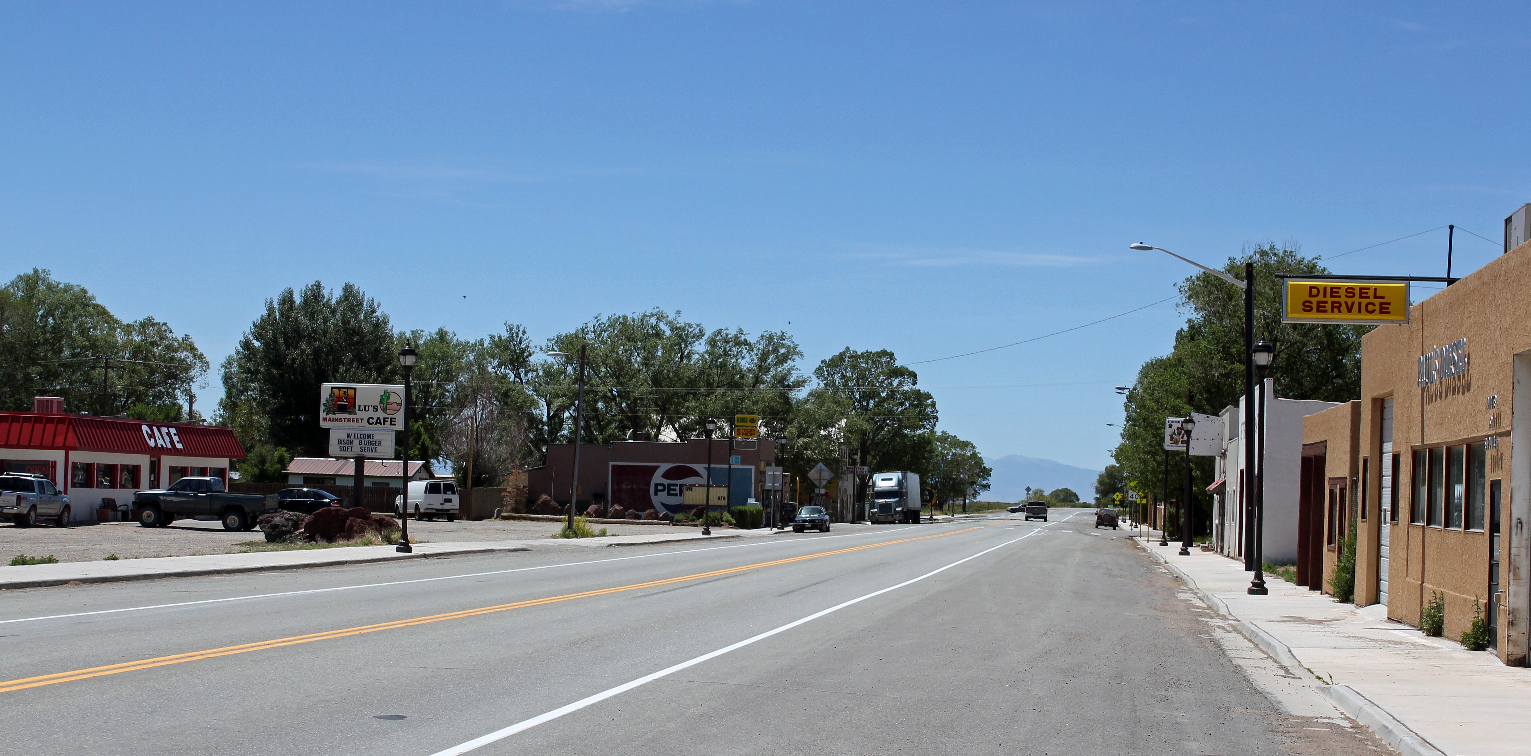 The main street (US Highway 160) in Blanca, Colorado.